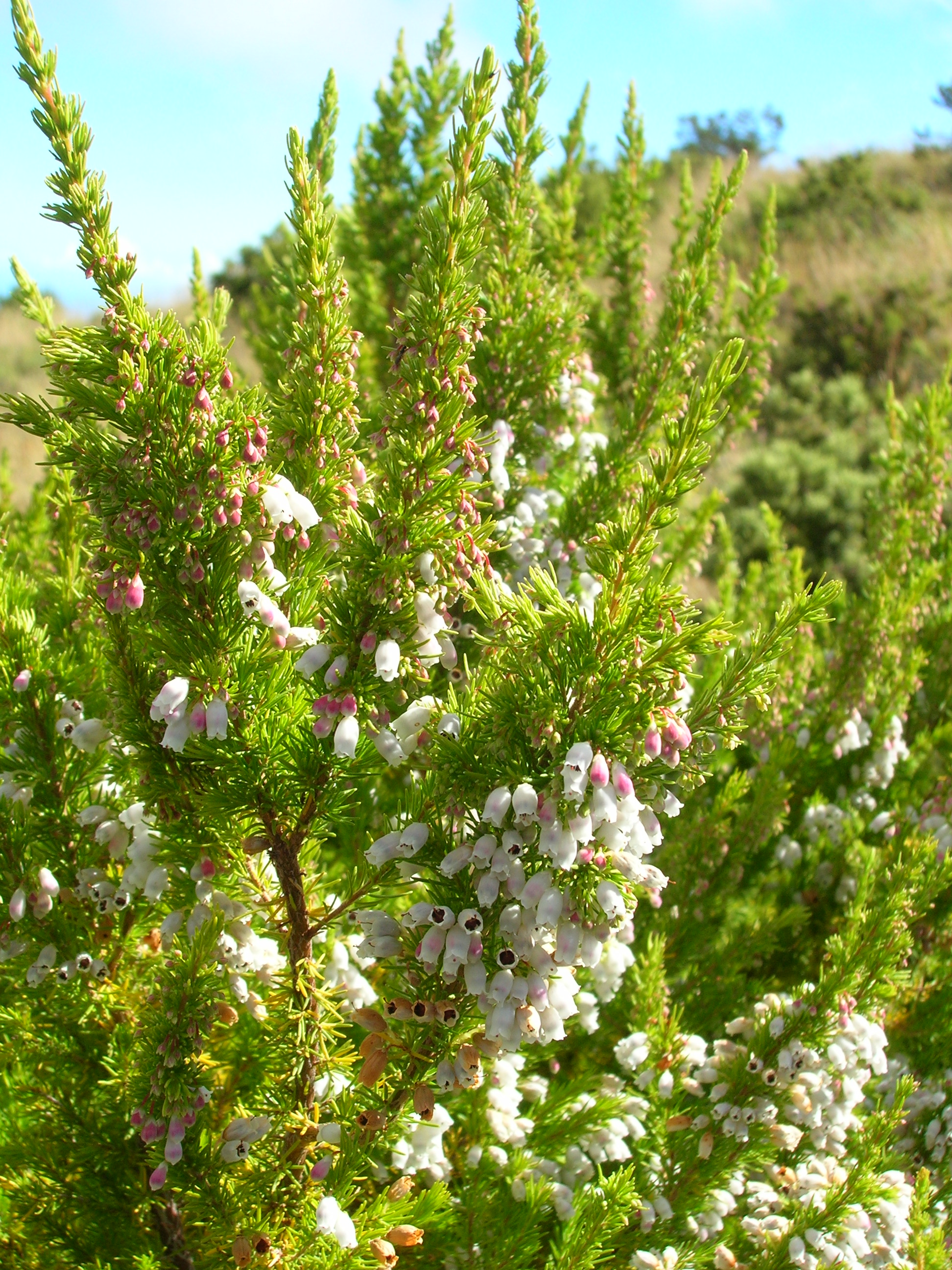 Erica lusitanica (flowers). Location: Maui, Waiale Gulch